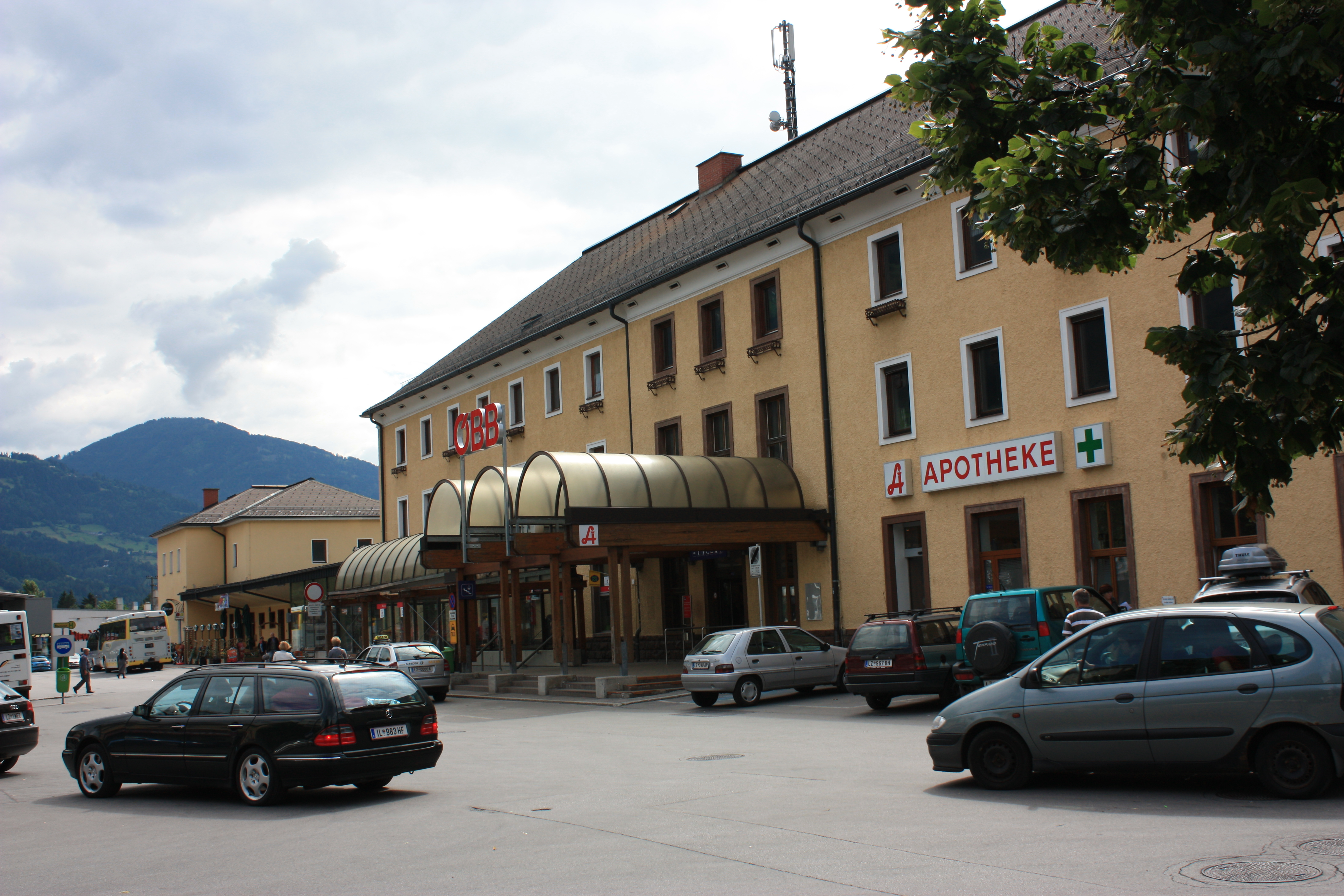 Train station Locality:Bahnhofplatz Community:Lienz